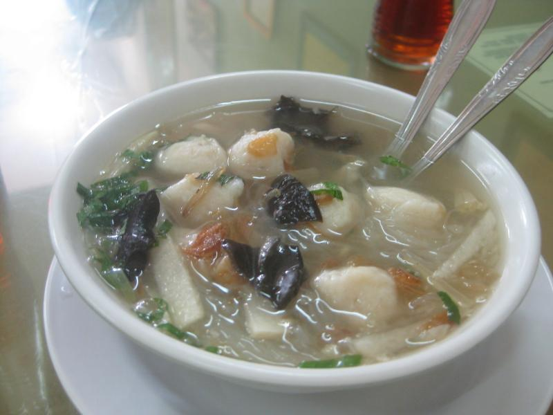 Tekwan, near Megaria/Metropole, Jakarta. Fish balls, julienned jicama, and jelly ear in shrimp stock. Specialty of South Sumatra